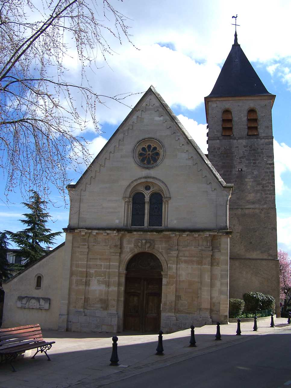 Church of Chambourcy (Yvelines, France)